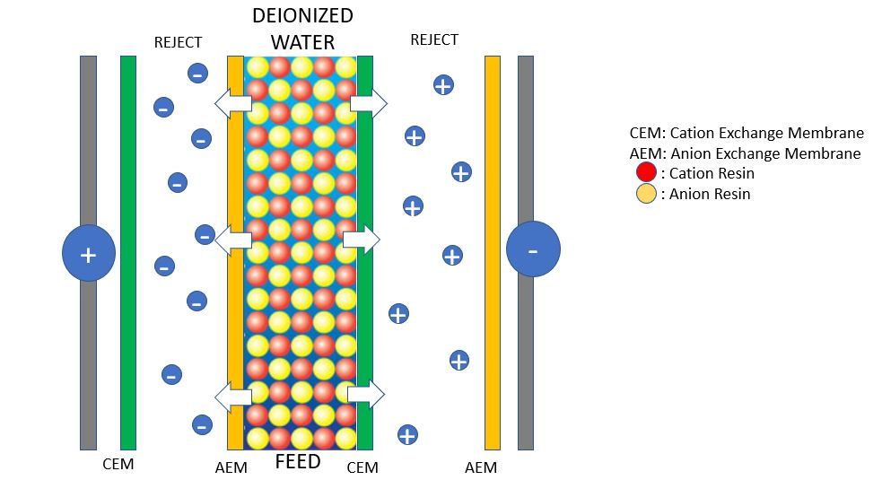 A simple scheme of how an electrodeionization instalation is